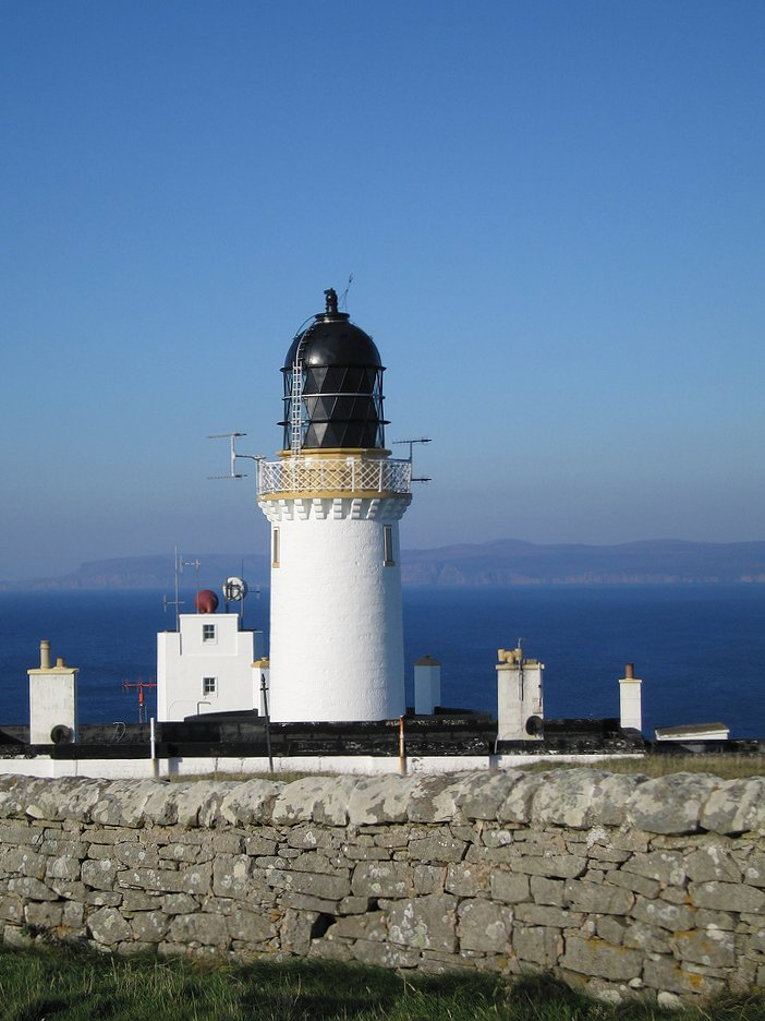 Dunnet Head Source [1]